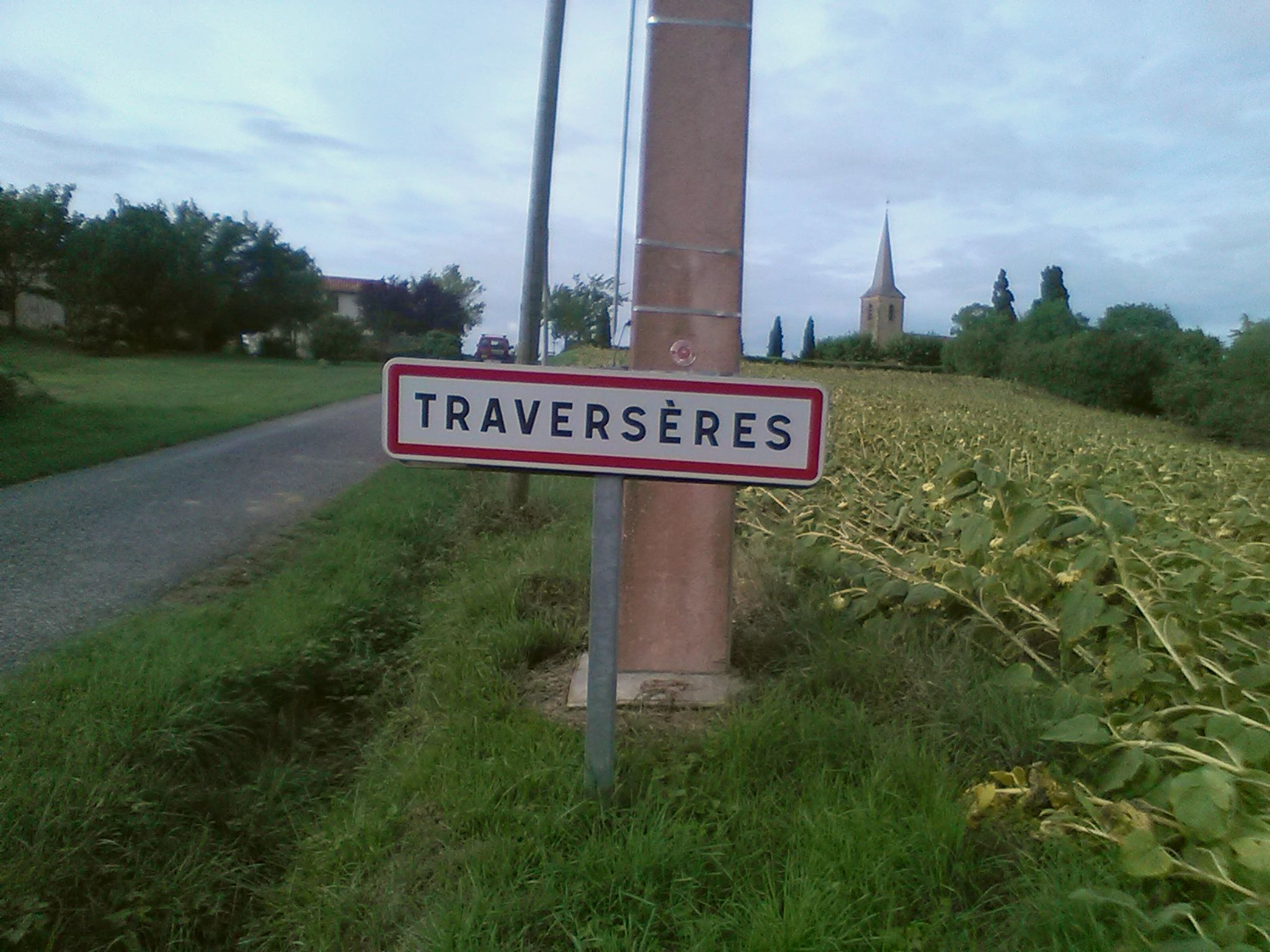 City limit sign in Traversères